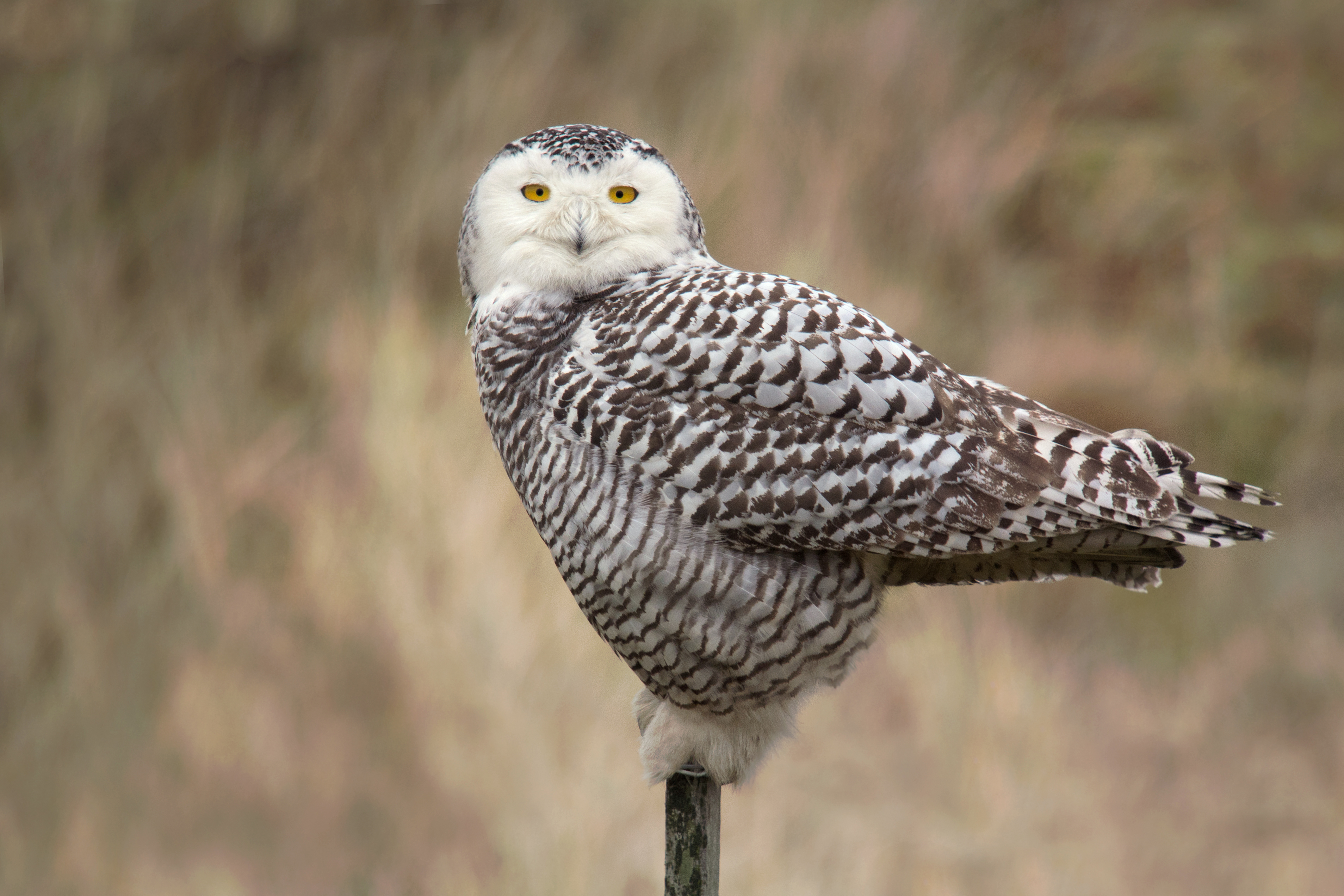 Snowy owl (Bubo scandiacus) at Vlieland, Netherlands. Photograph taken by digiscoping with Swarovski ATM 80 HD 30 X, Nikon1 V1 + 11-27,5 mm lens (Adapter DCB)